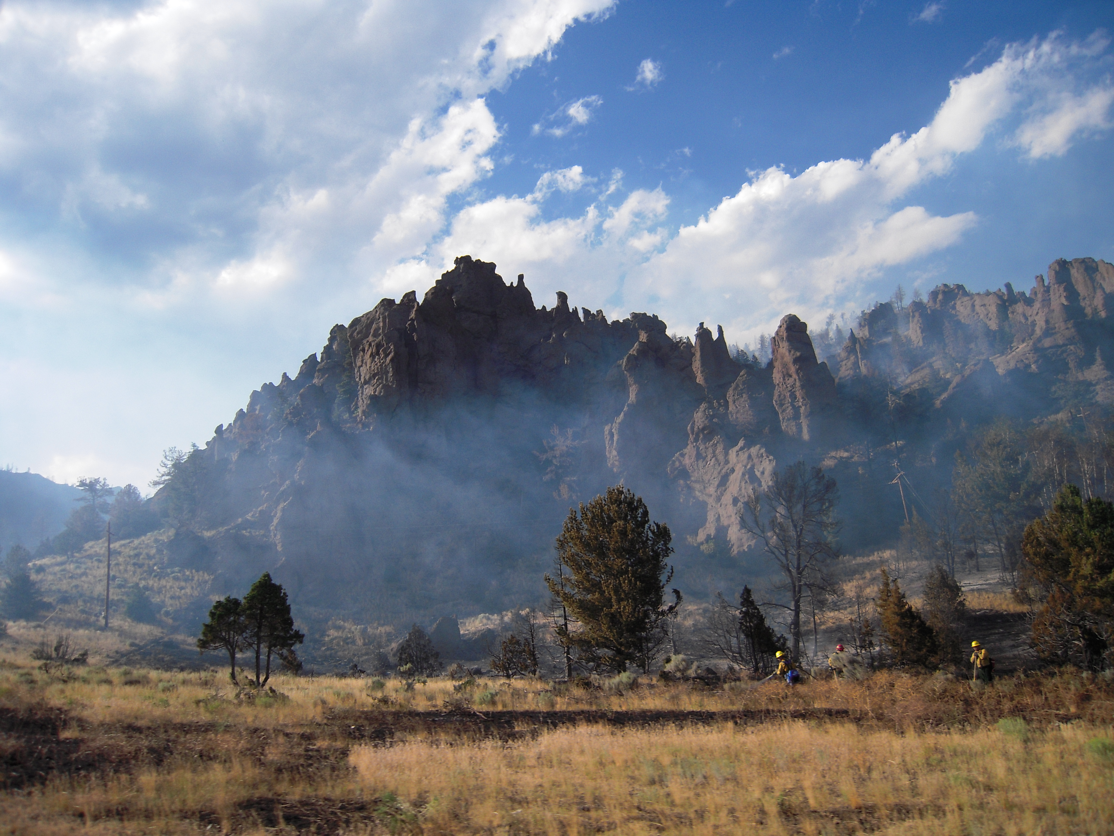 A small wildfire in Buffalo Bill State Park in August of 2008, with some firefighters battling the smoke.